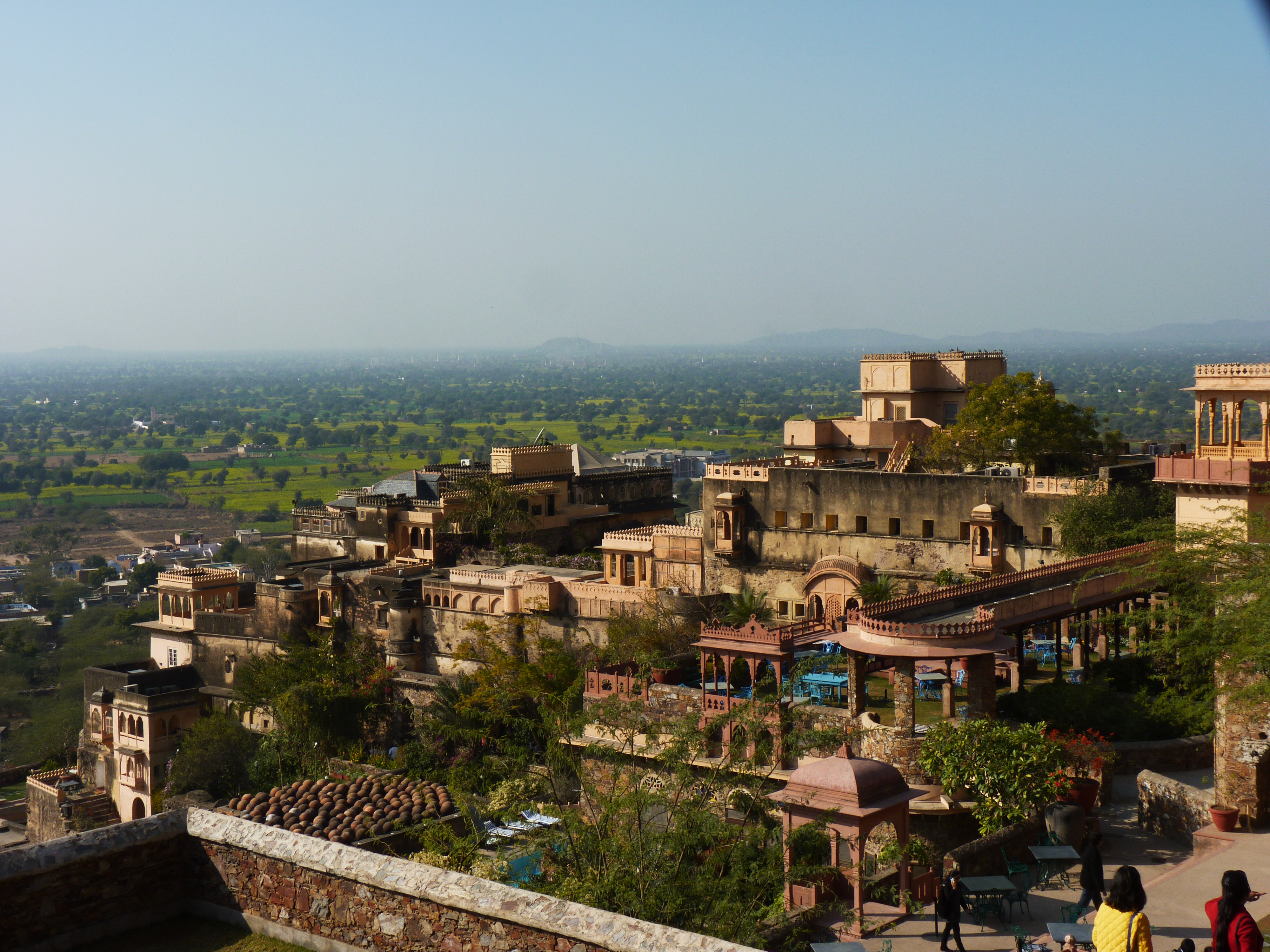 Built since 1464 AD, Neemrana Fort-Palace is today among India's oldest heritage resorts, started in 1986 . It is located on a high hillock and it commands magnificent views of the surrounding beauty and got its name from a valiant local chieftain named Nimola Meo, situated at 122 km on the Delhi-Jaipur highway - only 100 km from Delhi's international airport. The Chauhan capital was shifted from Mandhan (near Alwar) to Neemrana when the was established by Raja Dup Raj in 1467.[2] Nowadays, the Neemrana fort is a leading heritage resort and is an ideal venue for weddings and conferences. When you step inside this hotel, you will virtually get transported to an entirely different world. The ambiance is simply captivating and features period furniture, antique works of art and frescoed paintings The nearby town of Kesroli is located at a distance of 155 km from Delhi and is an ideal base for exploring the grandeur and natural beauty of Rajasthan. This place is only some distance from Neemrana and excursions from Neemrana would be ideal for exploring this magnificent town that has also its mention in the mythology. According to the historians this place can be traced to Matsya Janapada of the Mahabharata times. Here you will come across some of the oldest remains of a Buddhist Vihara where the Pandavas are believed to have spent the last year of their exile. One can catch a glimpse of the reclining statue of Hanuman; memorial of the ruler saint Bhartrihari and Talavriksha with very old water reservoirs.